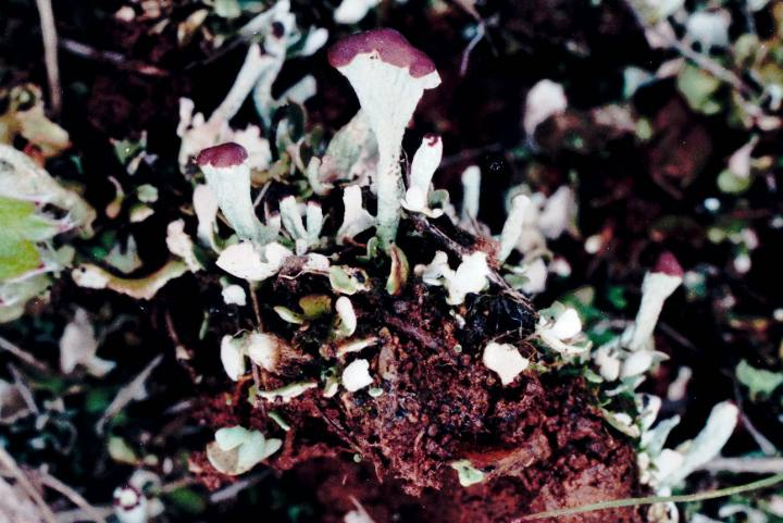 Cladonia sobolescens Nyl. ex Vainio, 1892 Photographed in the field showing peg-like podetia topped with brown apothecia. This colony of Cladonia sobolescens was growing on soil under the high voltage power lines near the metal gate on the S side of Wards Chapel Road at the Soldiers Delight Natural Environment Area, Owings Mills, Baltimore County, Maryland, USA (N 39o25.088' W 76o50.485').